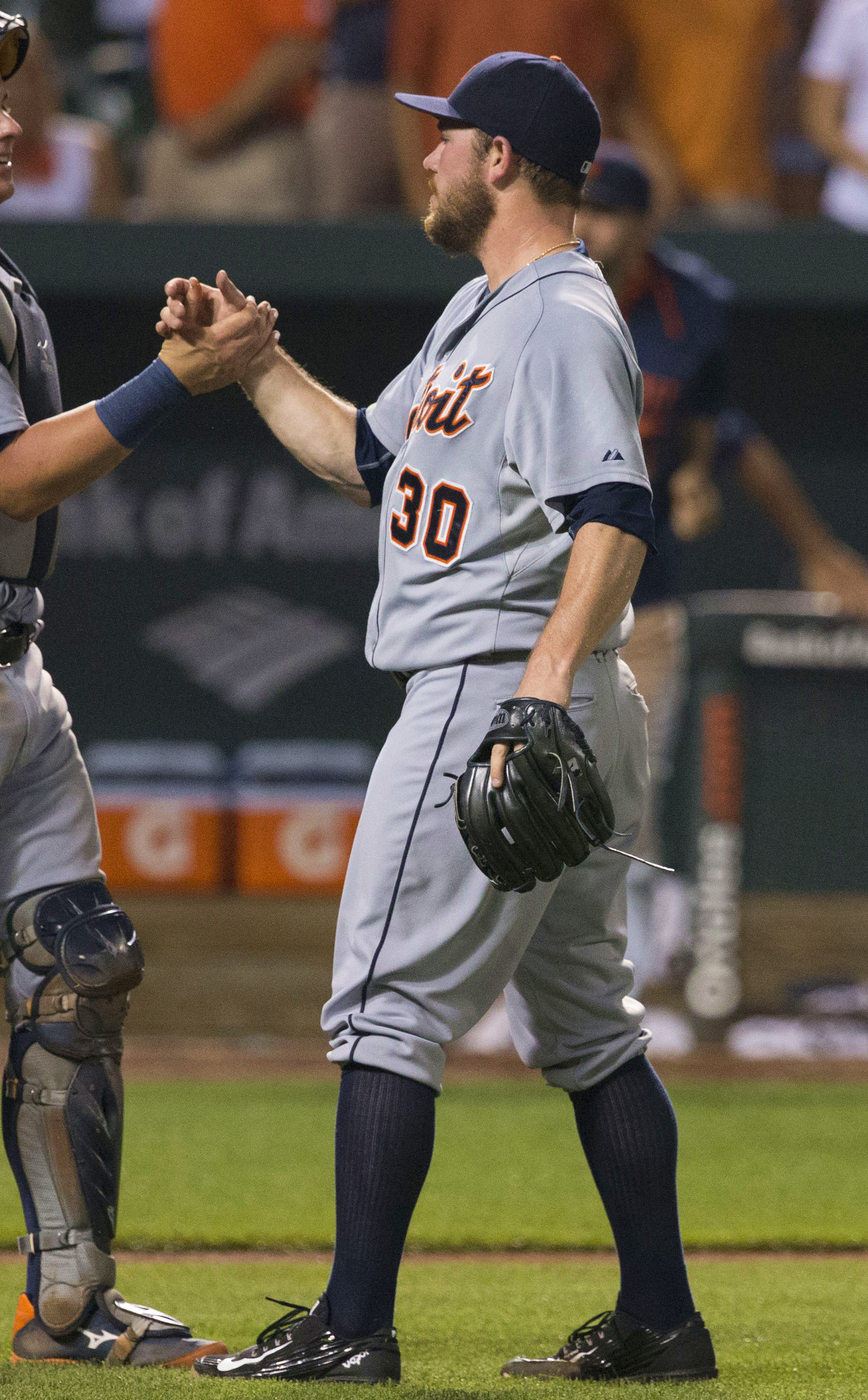 Alex Wilson